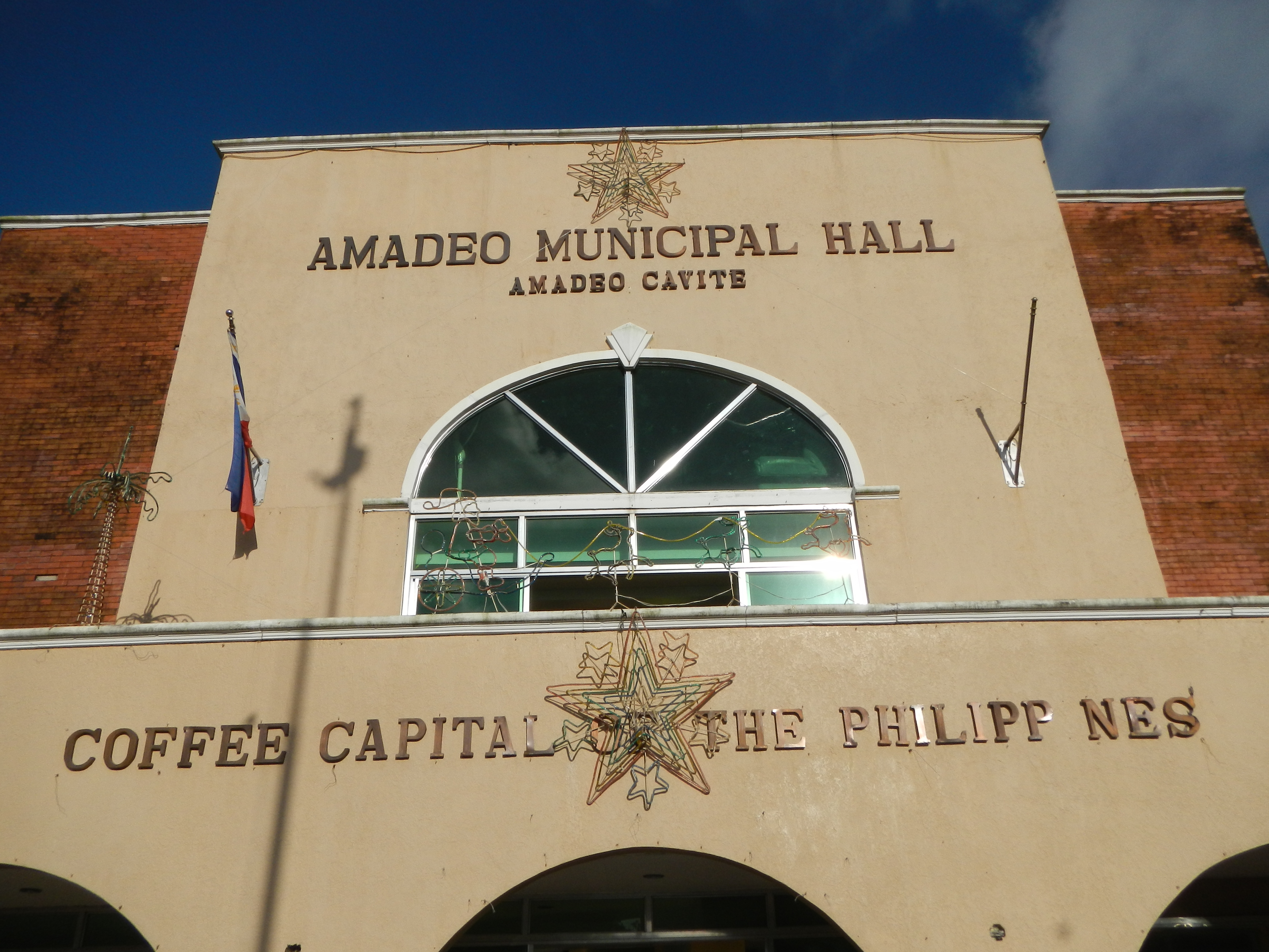 Upload Wizard photos of the Amadeo Municipal Hall - Amadeo, Cavite[1] facade of the town hall and the official seal and logo, in the Office of the Mayor.